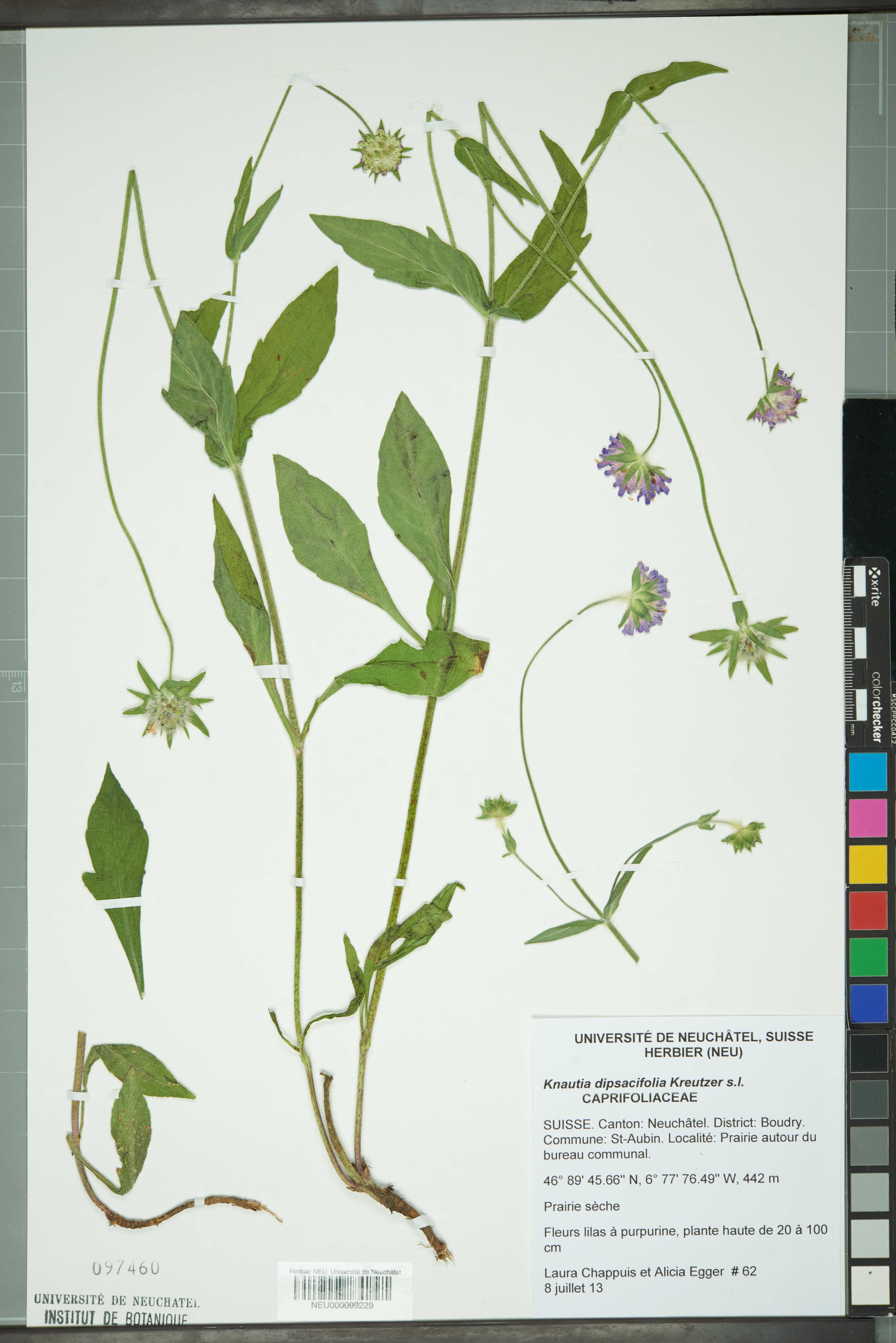 Dried pressed specimen of Knautia dipsacifolia